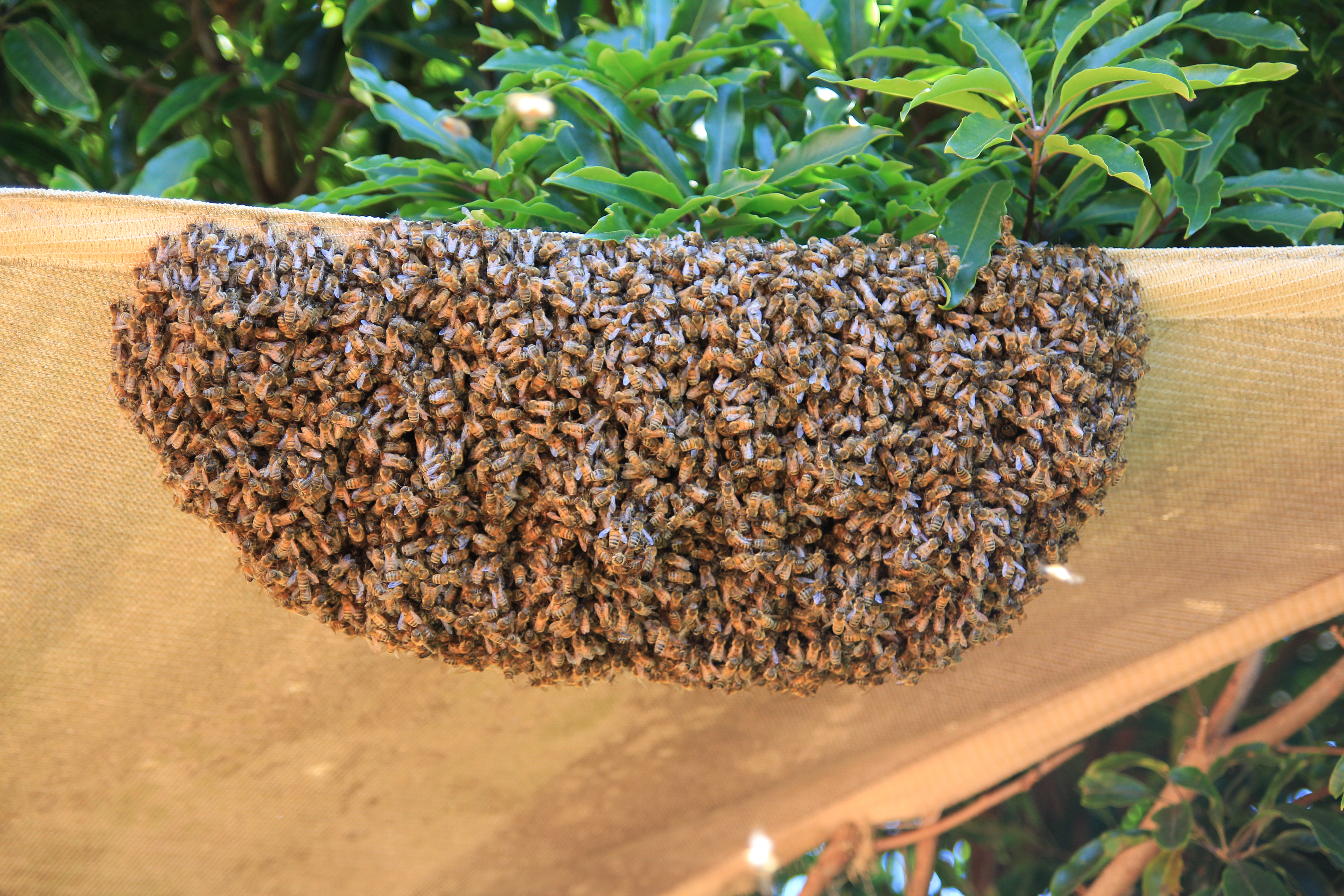 Swarm of Bees located in Bundoora, Melbourne, Australia